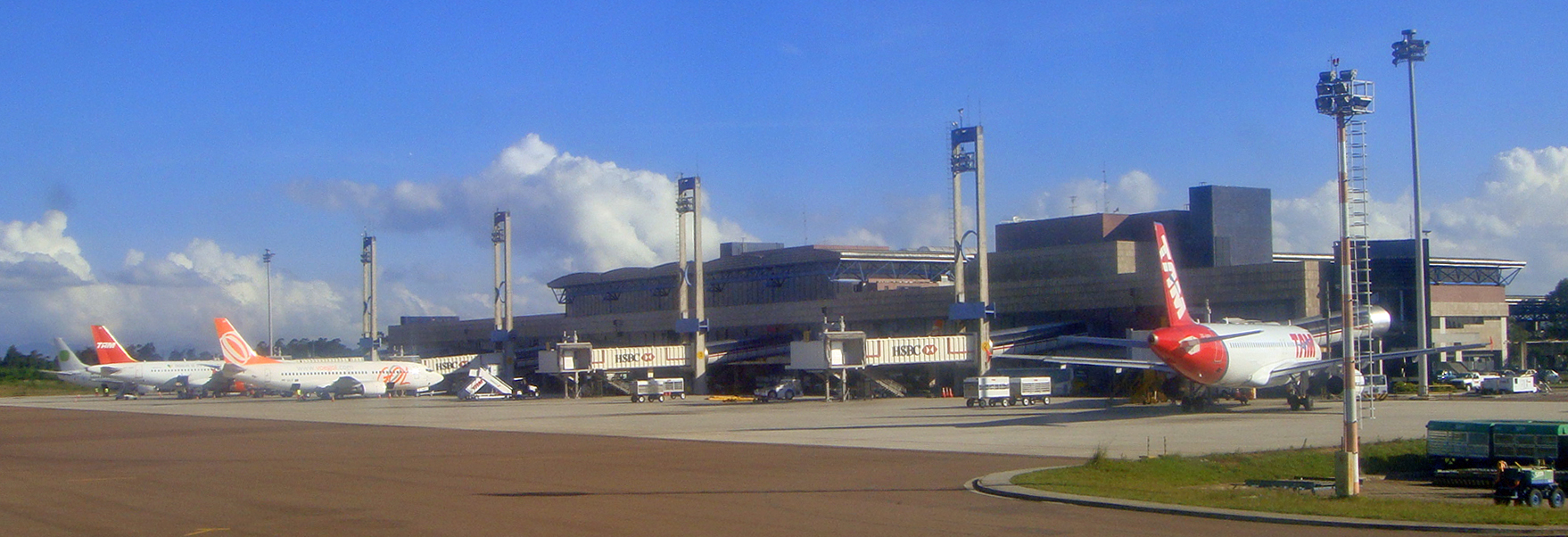 Panoramic view of the Alfonso Pena International Airport (CWB), Curitiba, Brazil